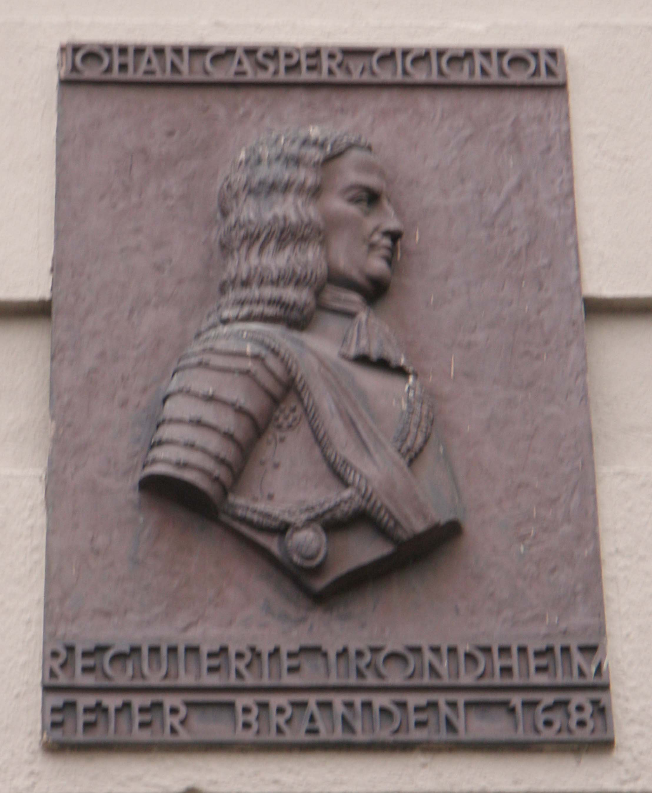 Commemorative plaque to Johan Caspar von Cicignon on the outer wall of Trondheim Town Hall.